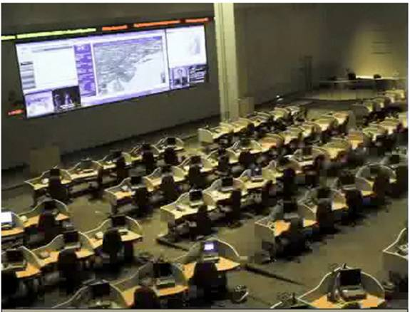 New Jersey Fusion Center